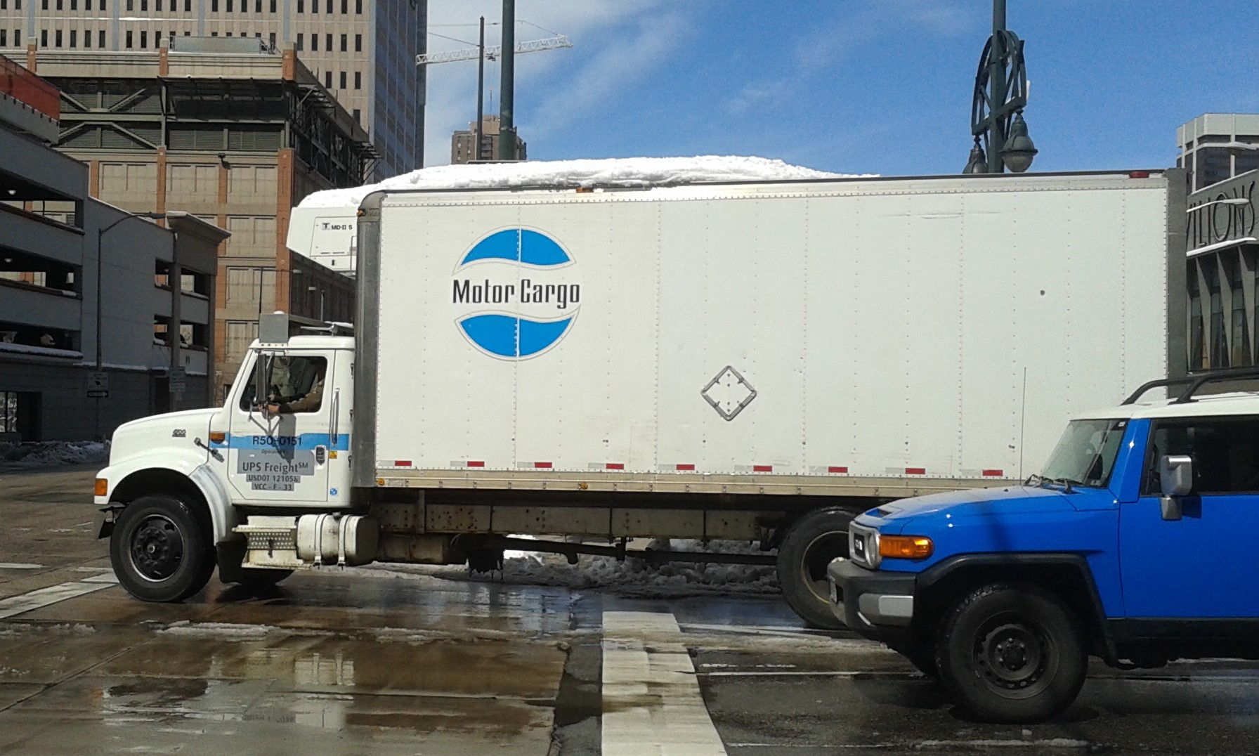 Motor Cargo, UPS Freight box truck, Denver